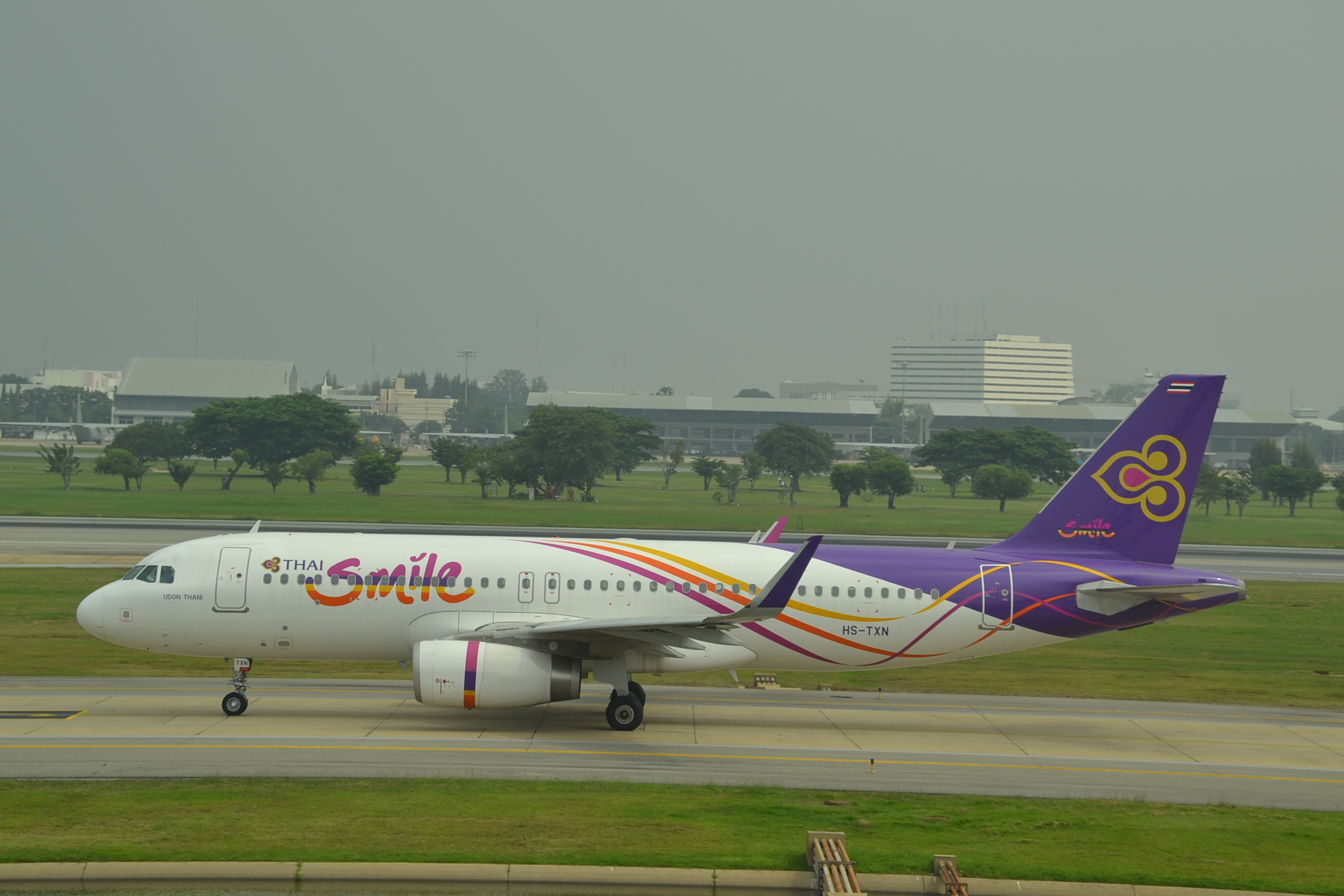 Airbus A320(SL) of Thai Smile with additional Smile title on the tail at Bangkok Don Mueang-DMK, 16/10/14.